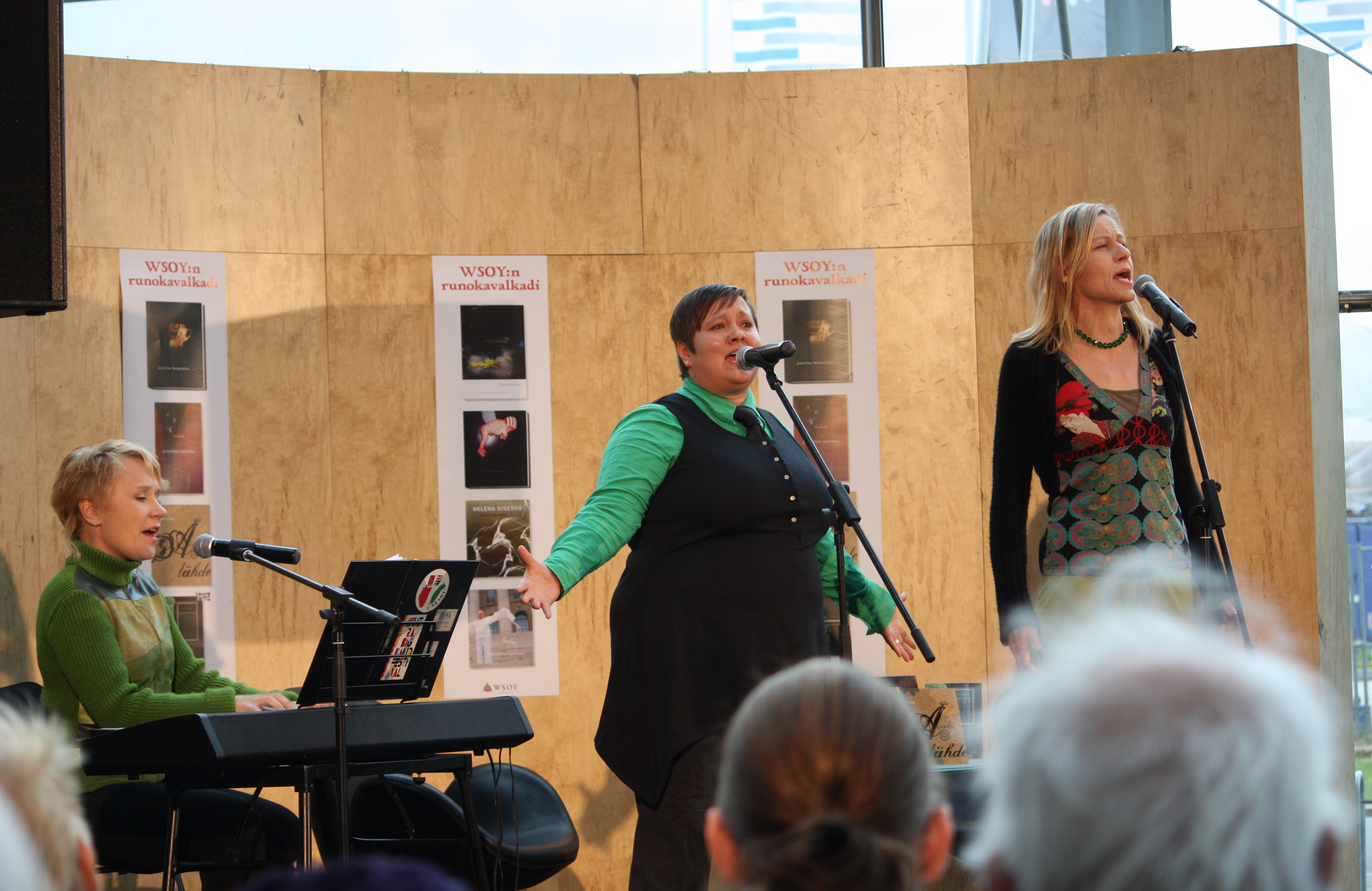 Tuija Rantalainen, Petra Lampinen, and Anja Erämaja performing on The Day of Aleksis Kivi and Finnish Literature at Mediatori in Helsinki.